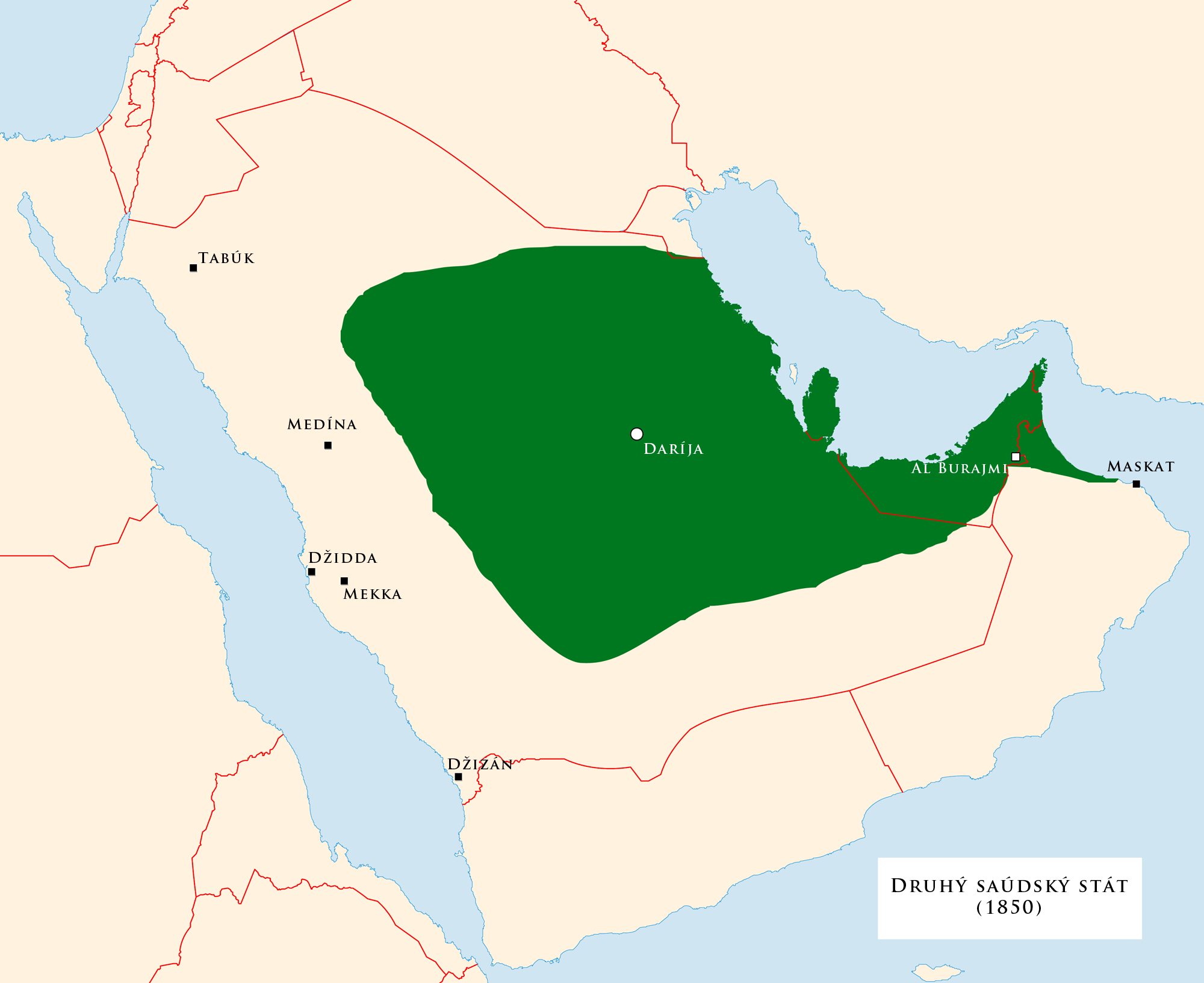 Second Saudi State ( 1850 )